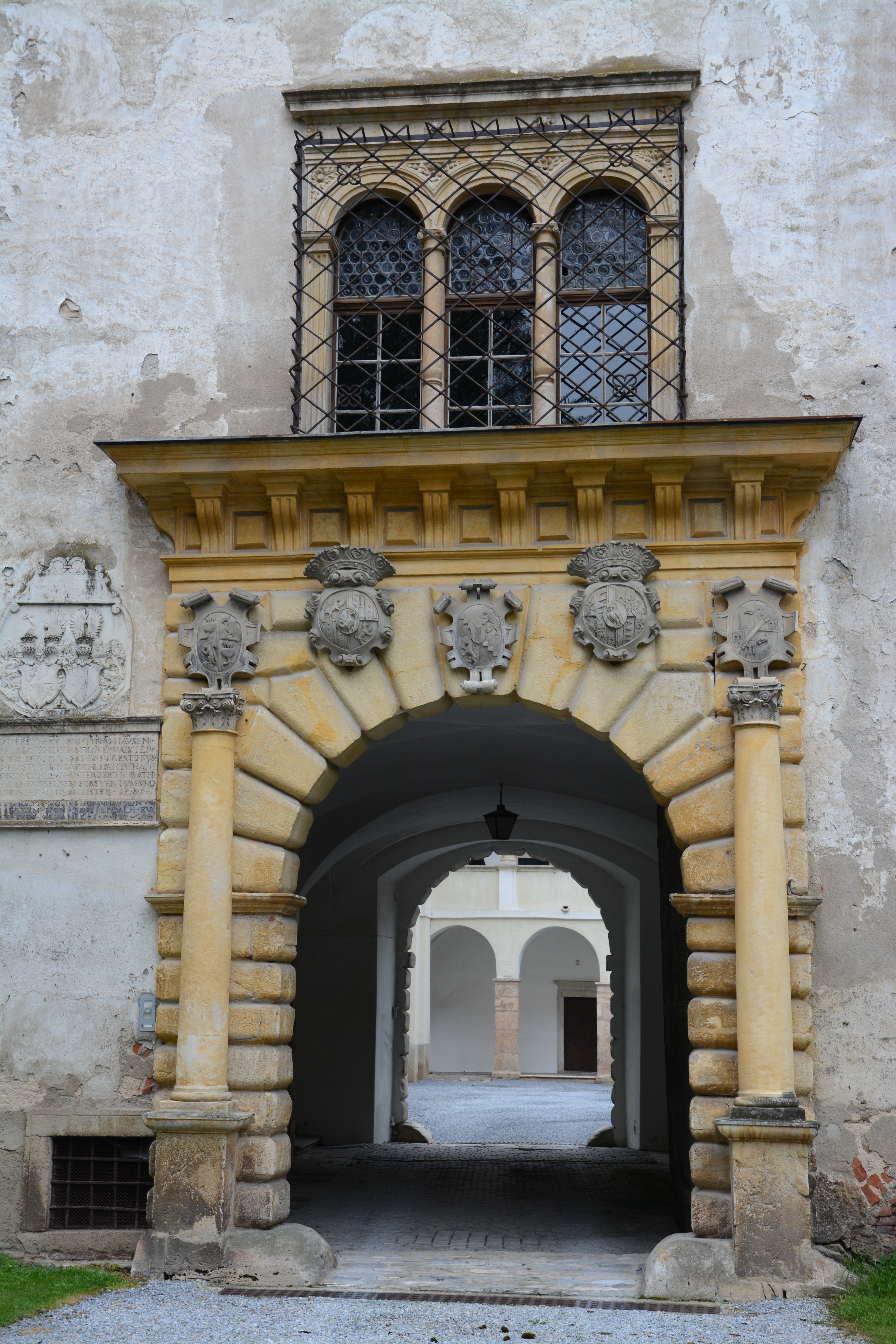 Schloss Thannhausen